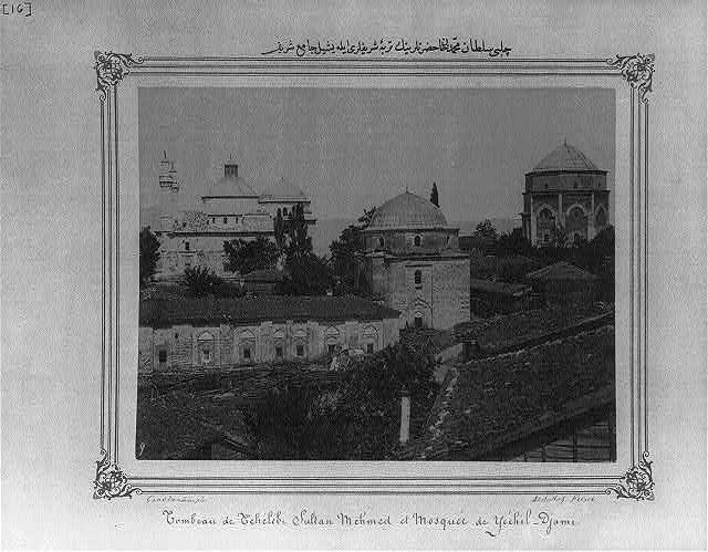 The mausoleum and Yeşil Cami (Green Mosque) of Çelebi Sultan Mehmet (I) in Bursa between 1880 and 1893